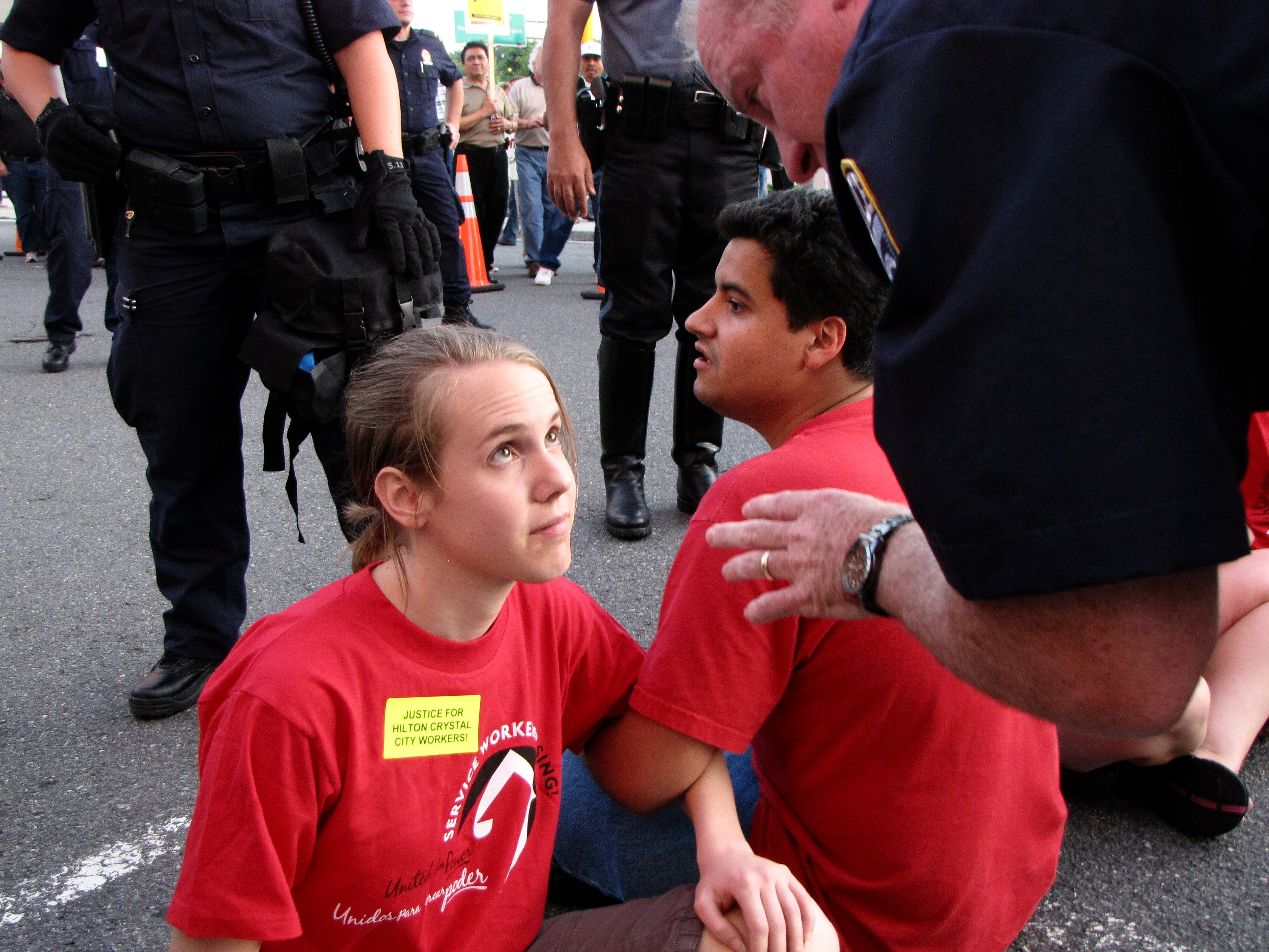 An Arlington County, A Virginia police officer speaks to activist Mary Grant during a civil disobedience action during a UNITE HERE picket, explaining that if she does not leave the street, she will be arrested. Moments later she was arrested.